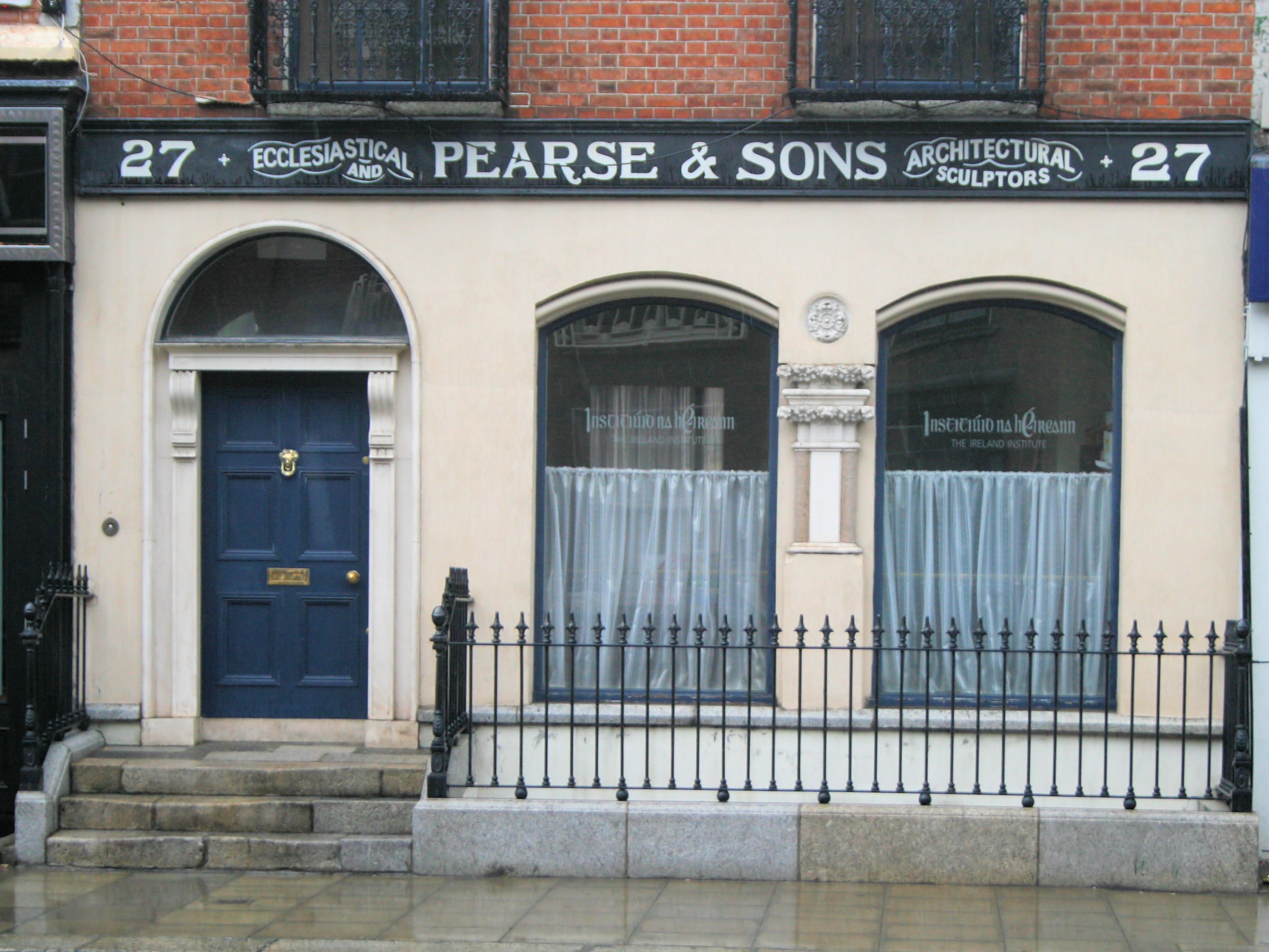 27 Pearse Street (formerly Great Brunswick Street), Dublin, the birthplace of Patrick and William Pearse, who were executed for their role in the Easter Rising of 1916. The facade was restored in the 1990s.